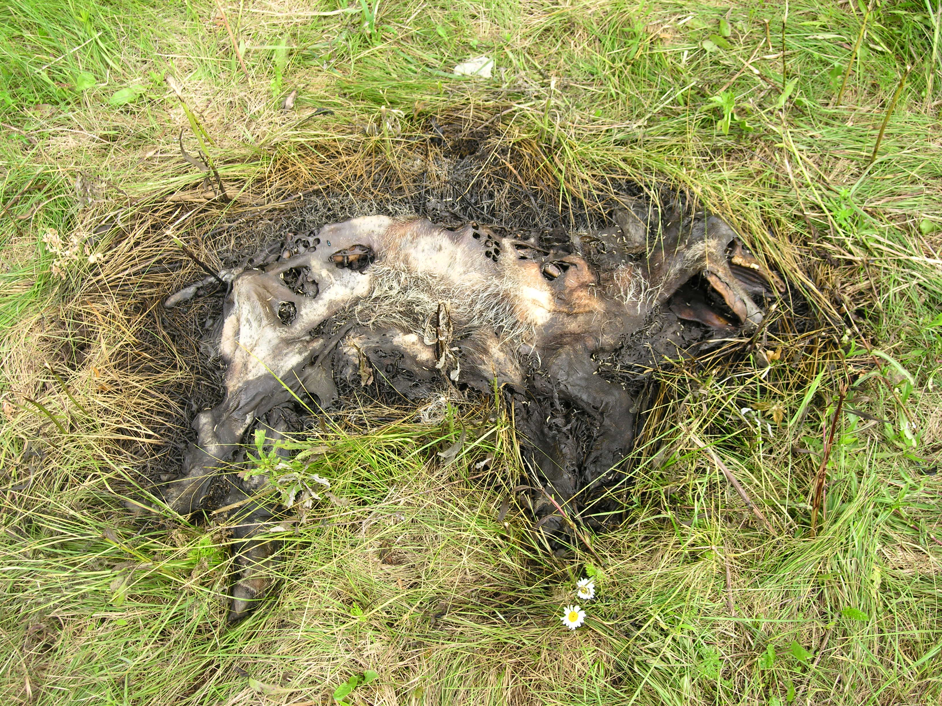 Example of a pig carcass (Sus scrofa) in the advanced stage of decomposition. Notice the dark staining surrounding the carcass, representing the CDI.